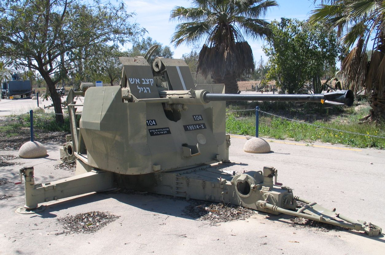 Description: Bofors 40 mm L70 AA gun at Muzeyon Heyl ha-Avir, Hatzerim airbase, Israel. 2006. Source: Photo by me, User:Bukvoed.